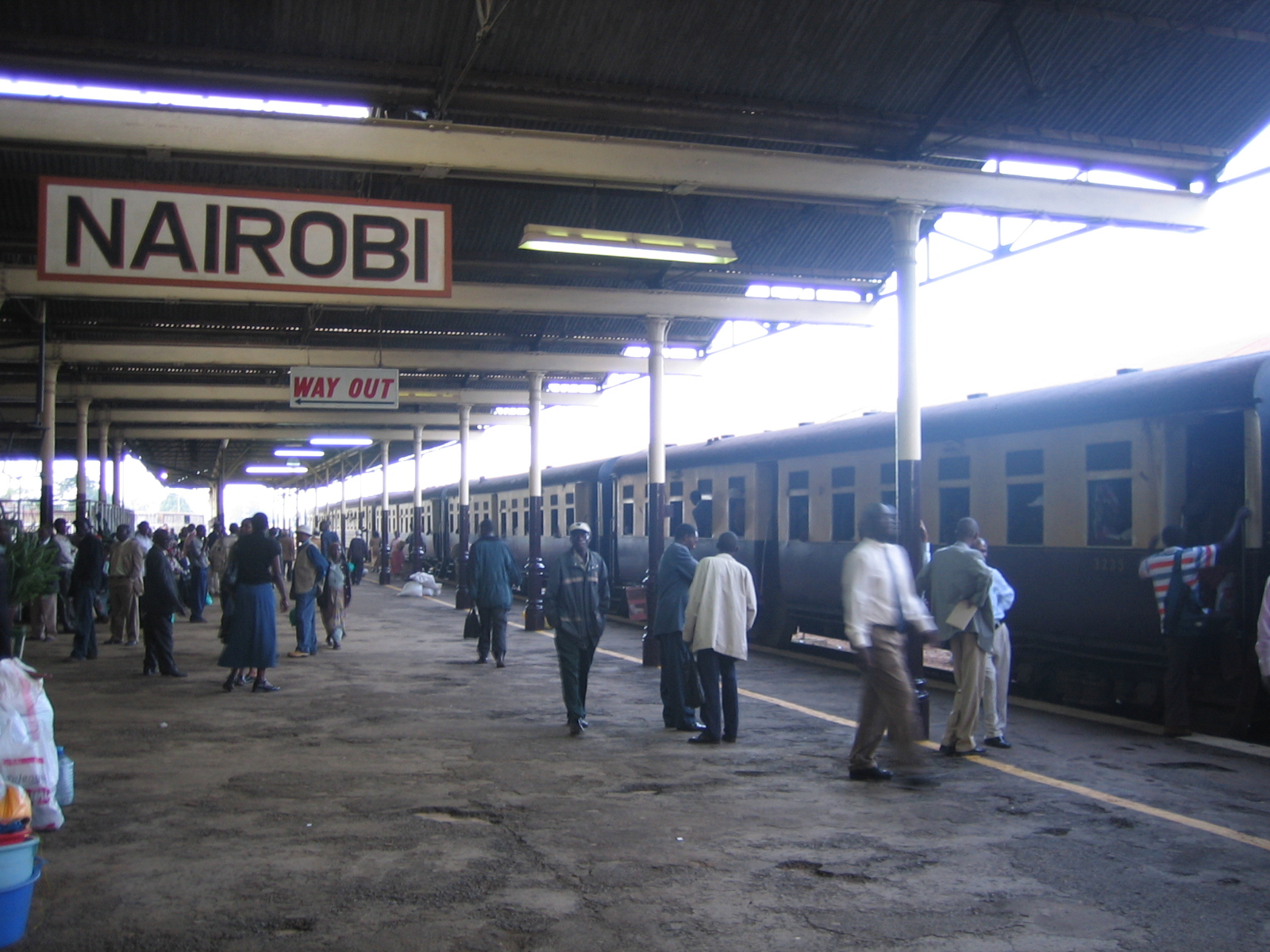 Nairobi Railway Station at dusk